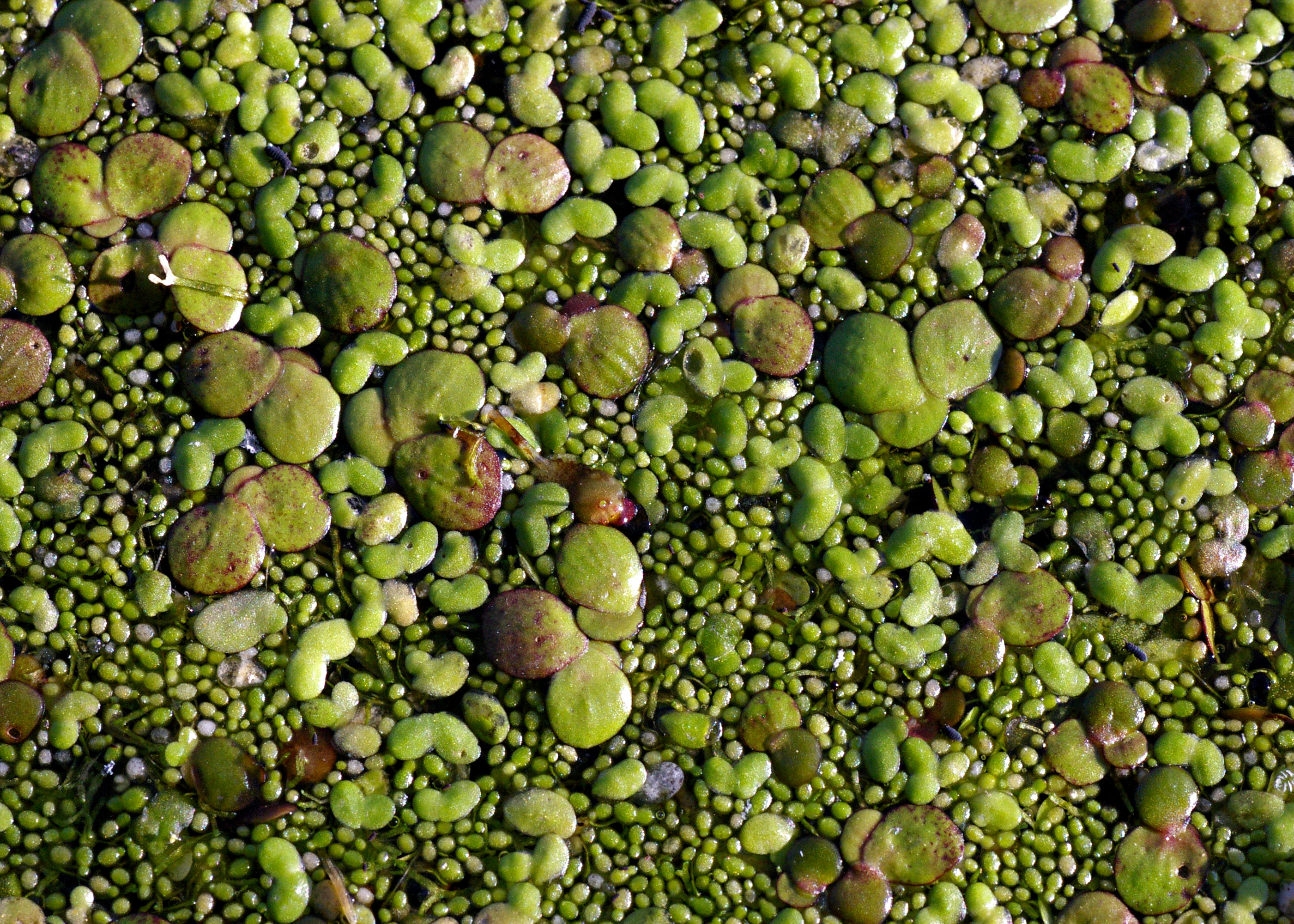 Close-up of different duckweeds on the surface of a pond: Spirodela polyrhiza (large "leaves"), Lemna minor (medium), and Wolffia arrhiza (very small).